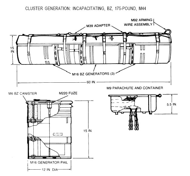 The M44 generator cluster bomb had a diameter of 15 inches and a length of 60 inches. Weighing 175 pounds the M44 generator cluster was a cluster bomb which was designed to deliver the chemical incapacitating agent BZ; to that end the weapon held approximately 39 pounds of BZ.